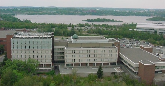 Laurentian University Science Buildings